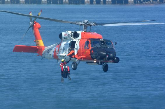 U.S. Coast Guard HH-60 retrieving a rescue swimmer